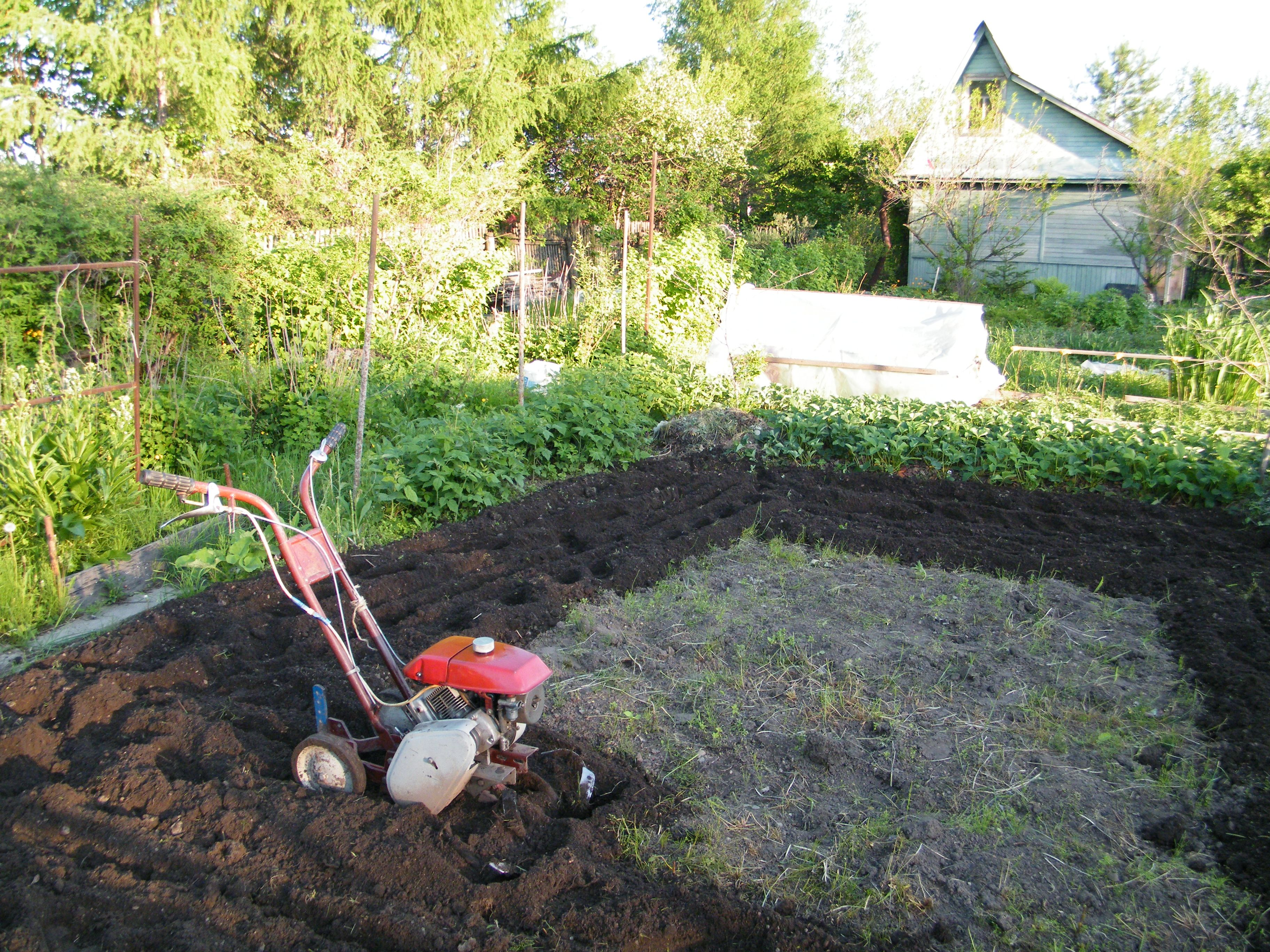 Krot from Russia